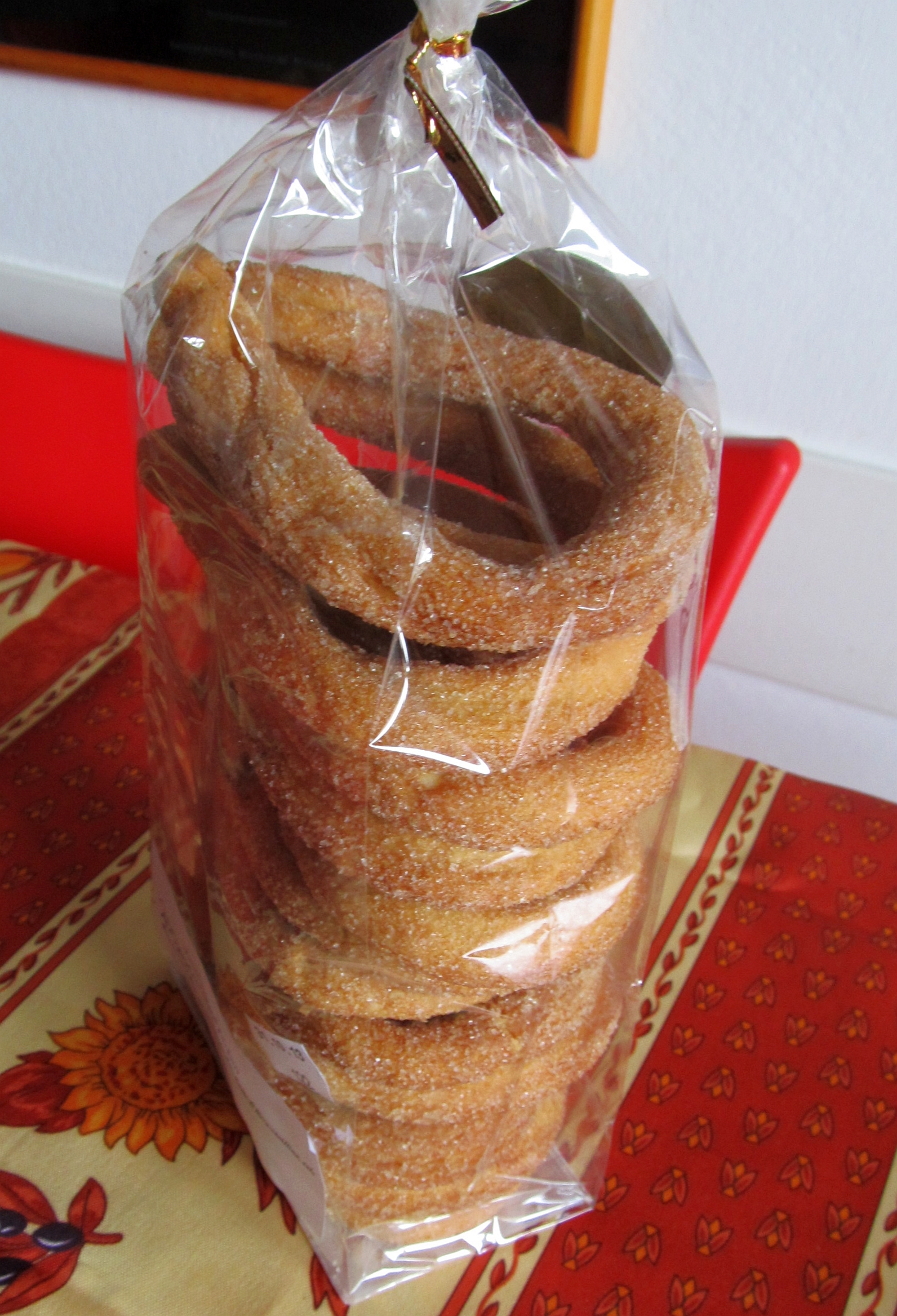 Packed torcetti (a traditional biquit from Piedmont - Italy)